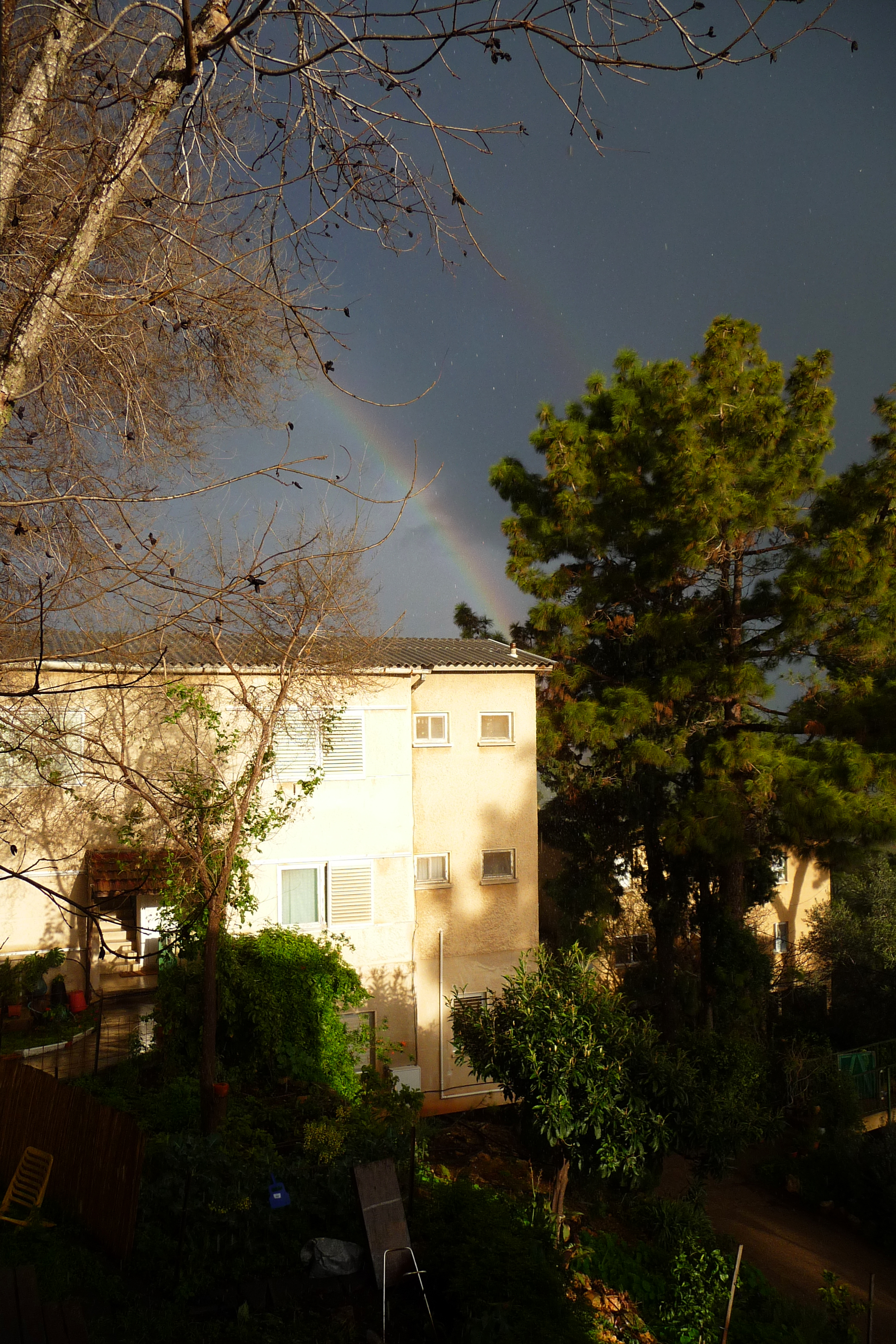 IBet Oren